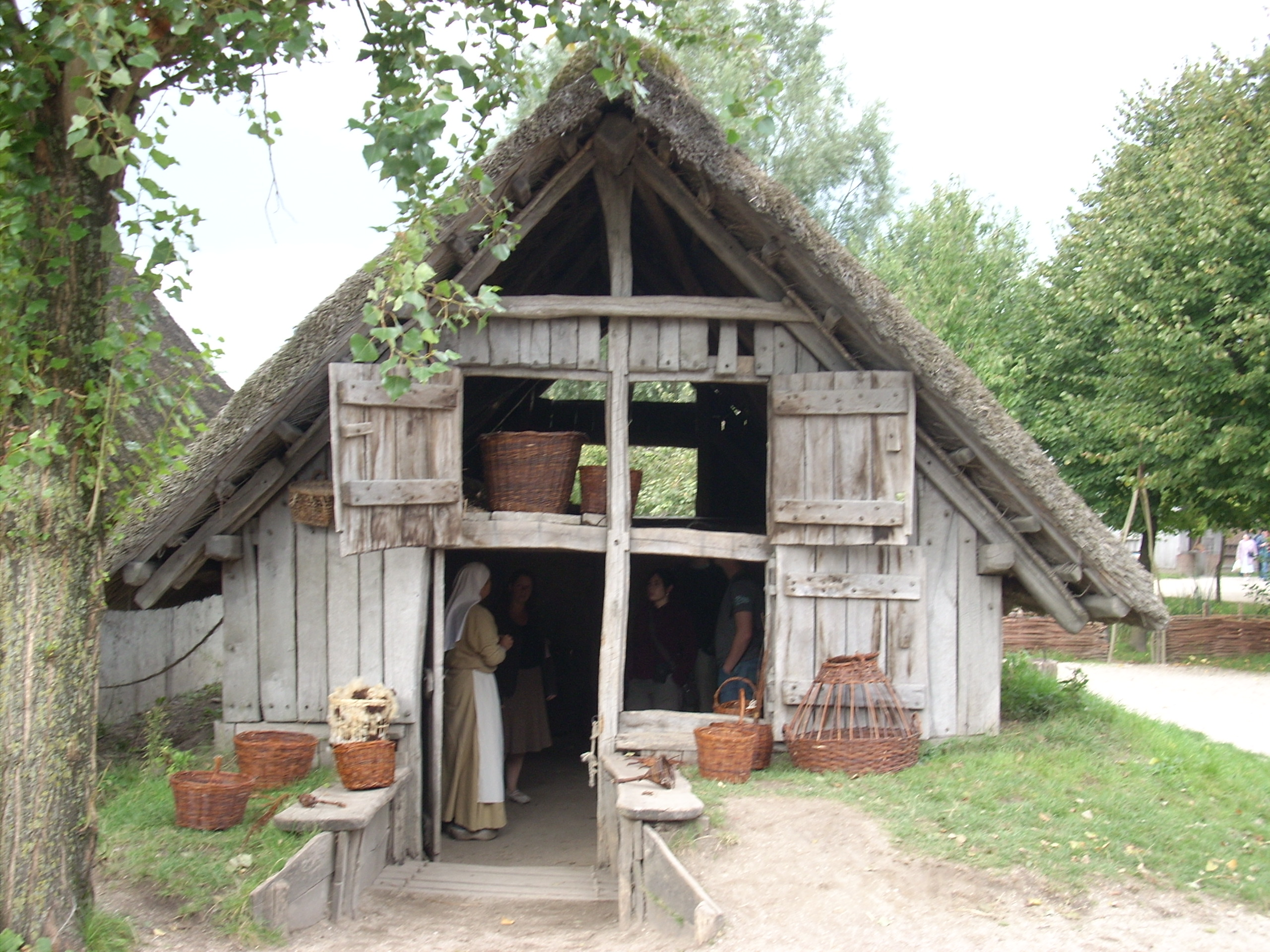 Archeon, Alphen aan den Rijn, the Netherlands: Showing a replica of a house from the middle ages.